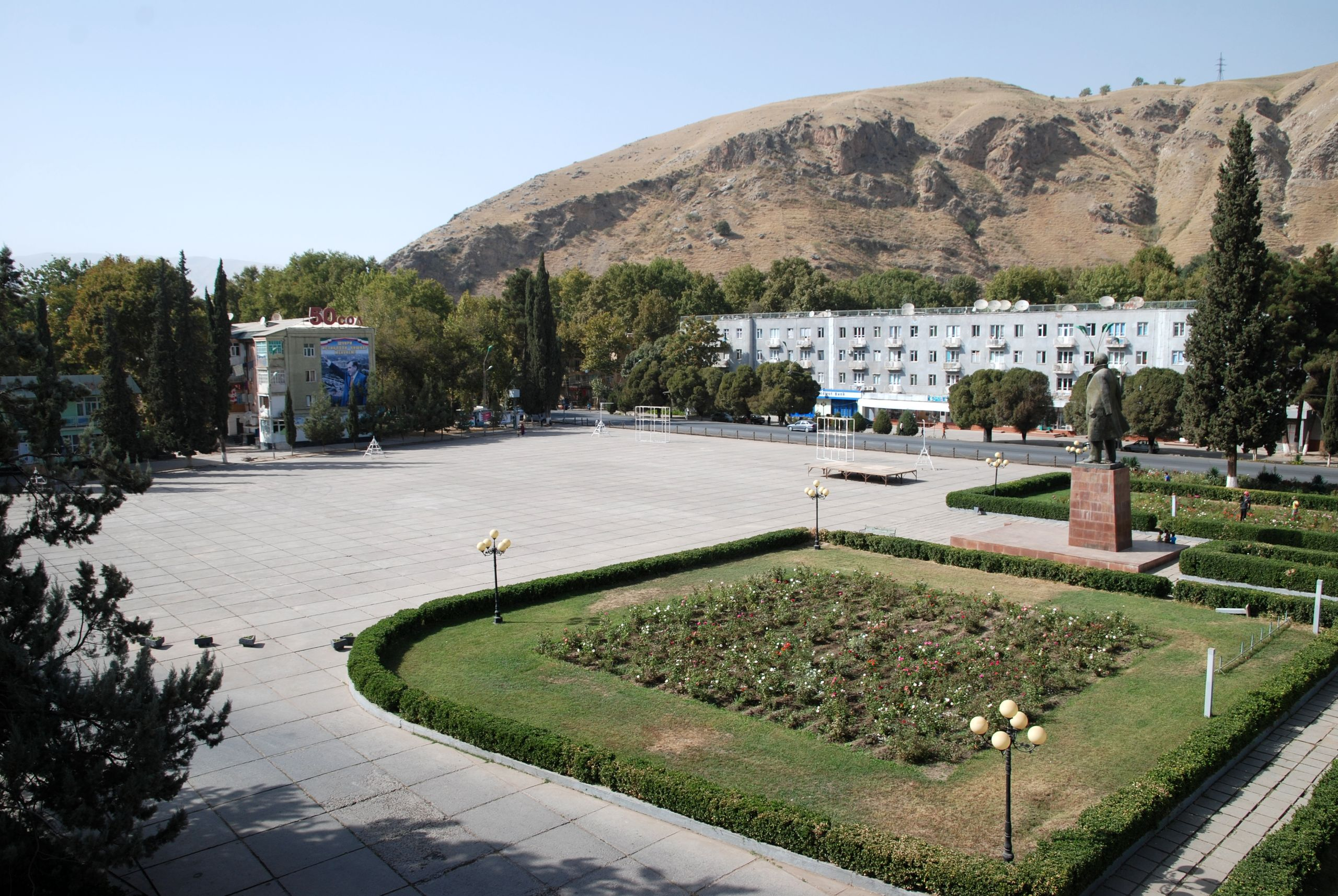 Nurek, central square